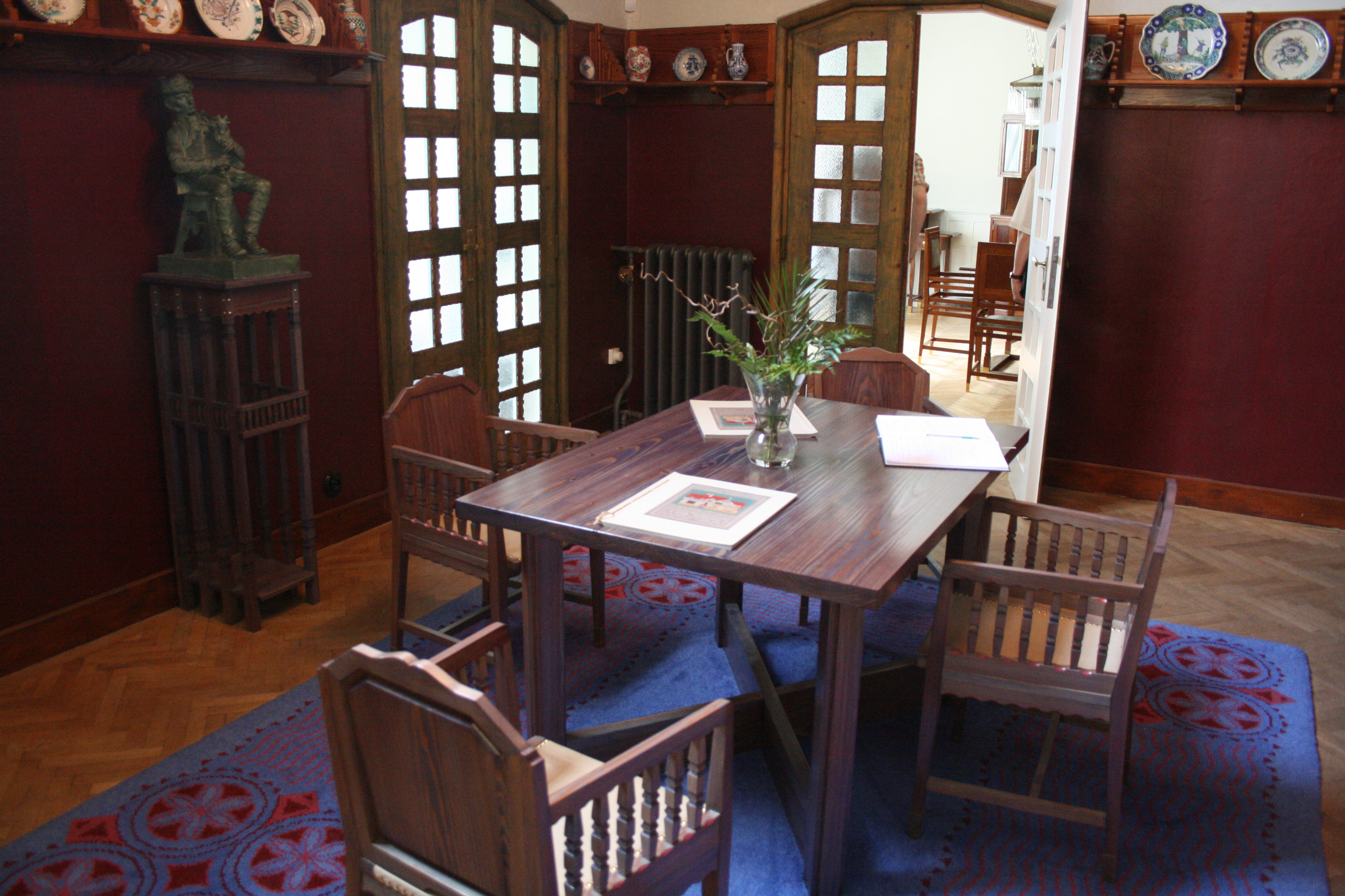 Villa of Dusan Jurkovic, Brno, Czech Republic.